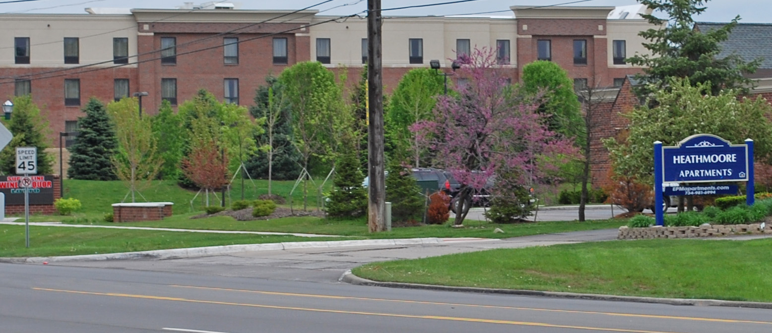 Former site of Phillip and Maria Hasselbach Dingledey House Canton MI (DEMOLISHED)